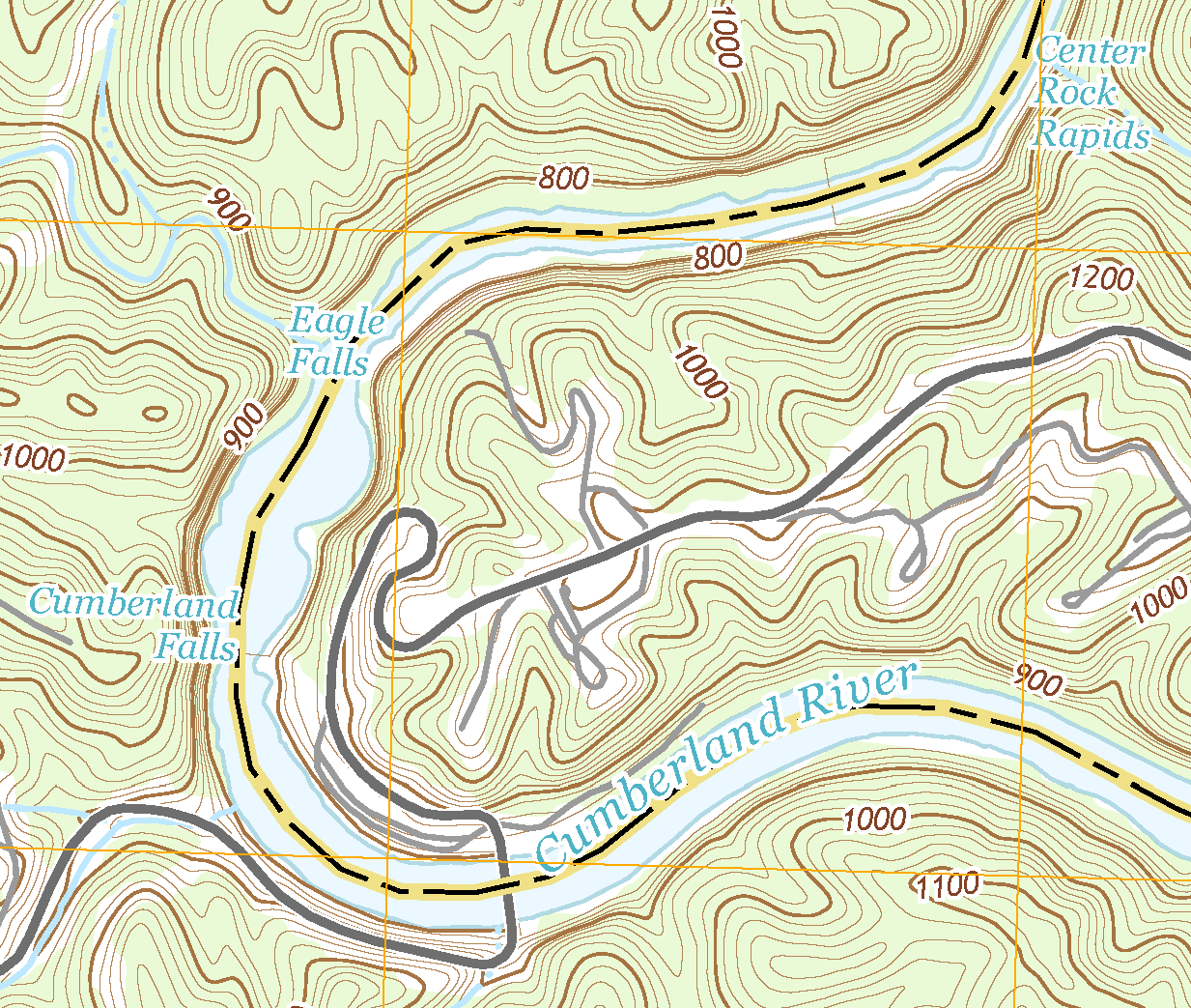 USGS map showing the area surrounding the Cumberland Falls